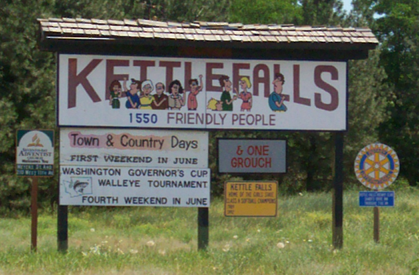 This is a photograph of the welcome sign at the northwestern entrance of Kettle Falls.